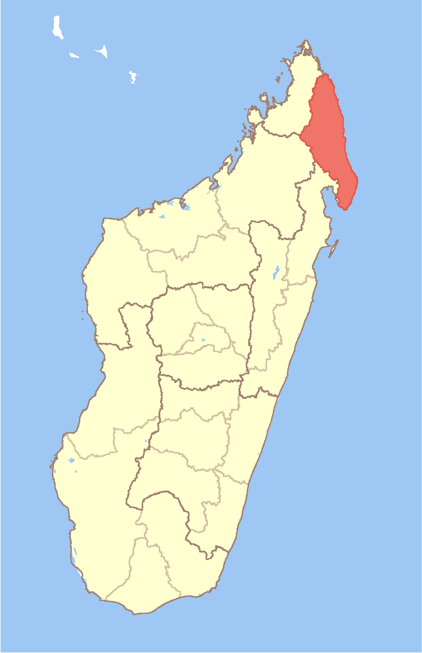 Map of Madagascar with Sava Region highlighted